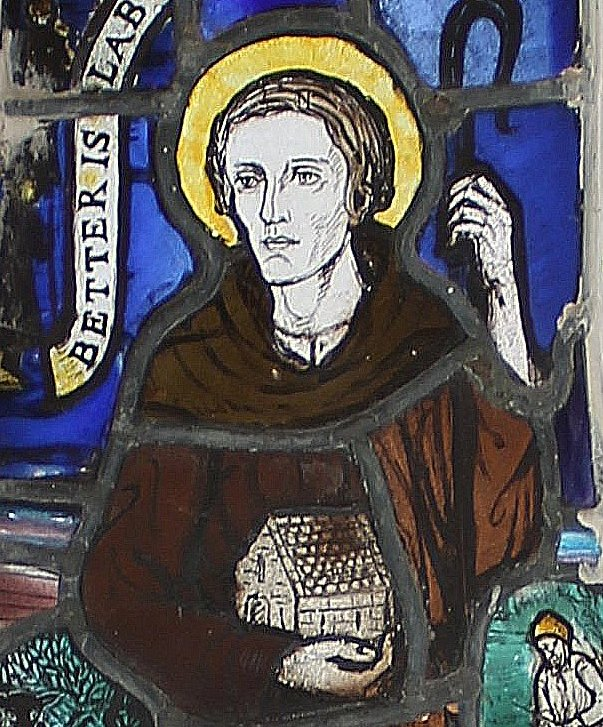 St Cybi window. St Beuno's Church, Penmorfa, is a redundant church near Penmorfa, some 2 miles to the northwest of Porthmadog, Gwynedd, Wales. It is designated by Cadw as a Grade II* listed building.